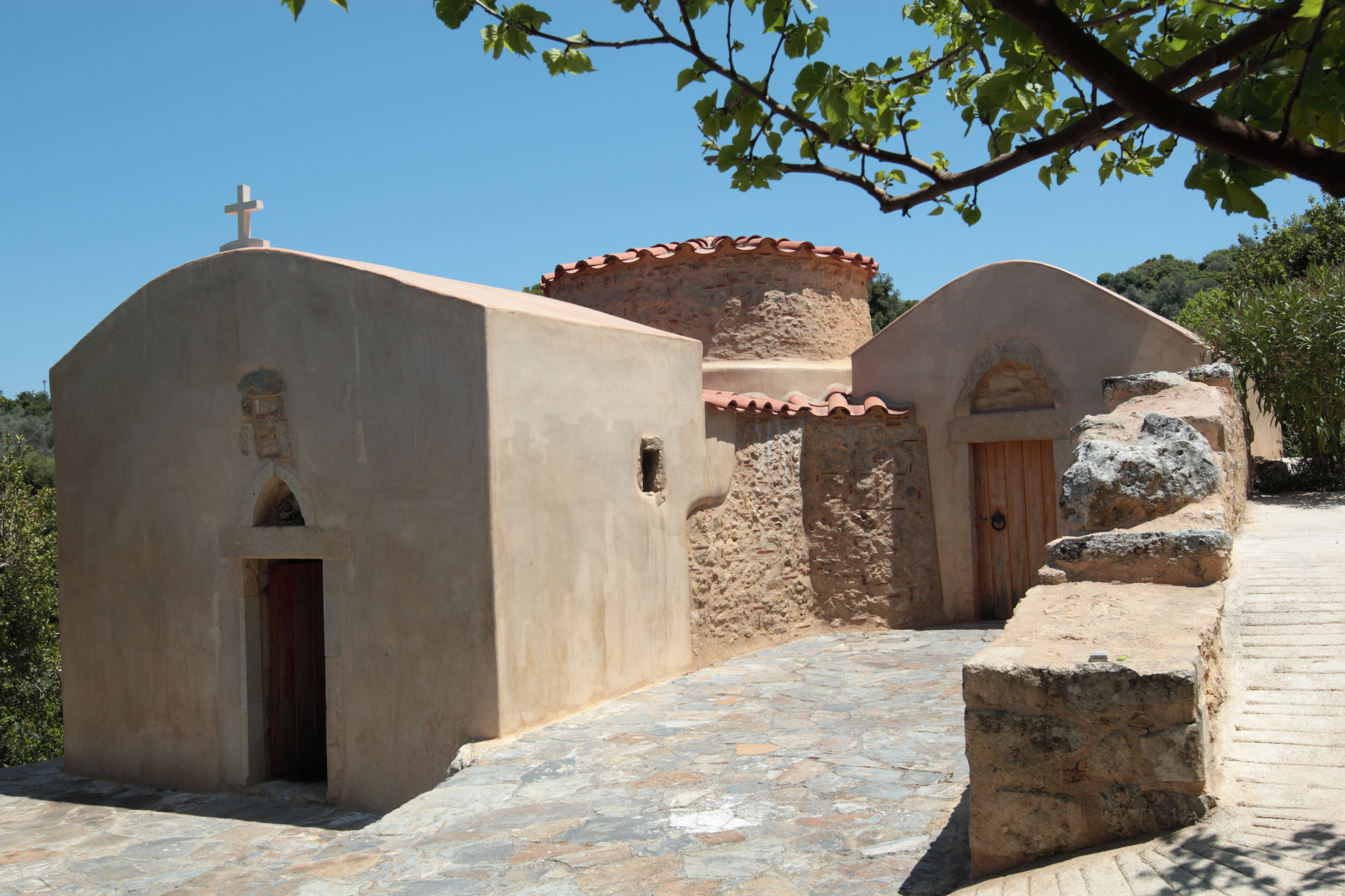 The church of the Panagia Kera, Chromonastiri Village, Crete